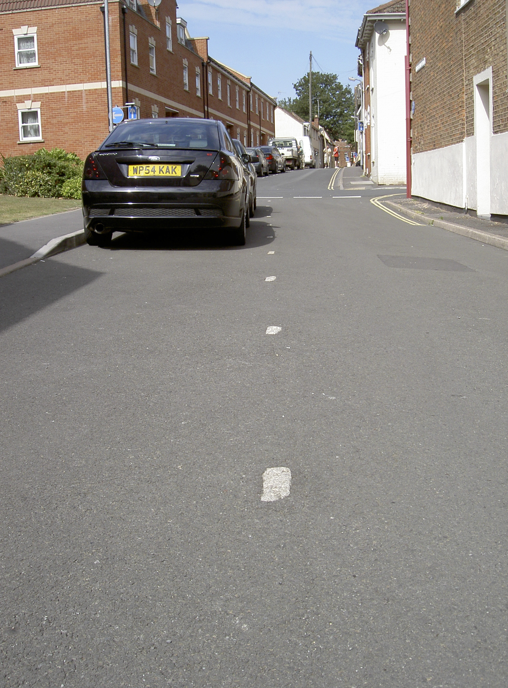 Granite markers in Horsepond Lane, Bridgwater, thought to indicate the eastern extent of the former Franciscan Friary on this site.